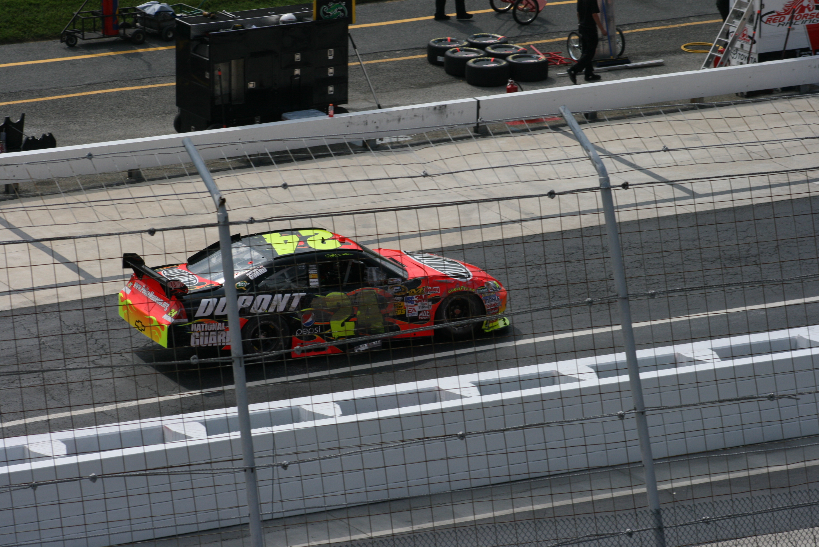 Jeff Gordon's 2009 Sprint Cup Series car after hitting the wall during qualifying at Dover